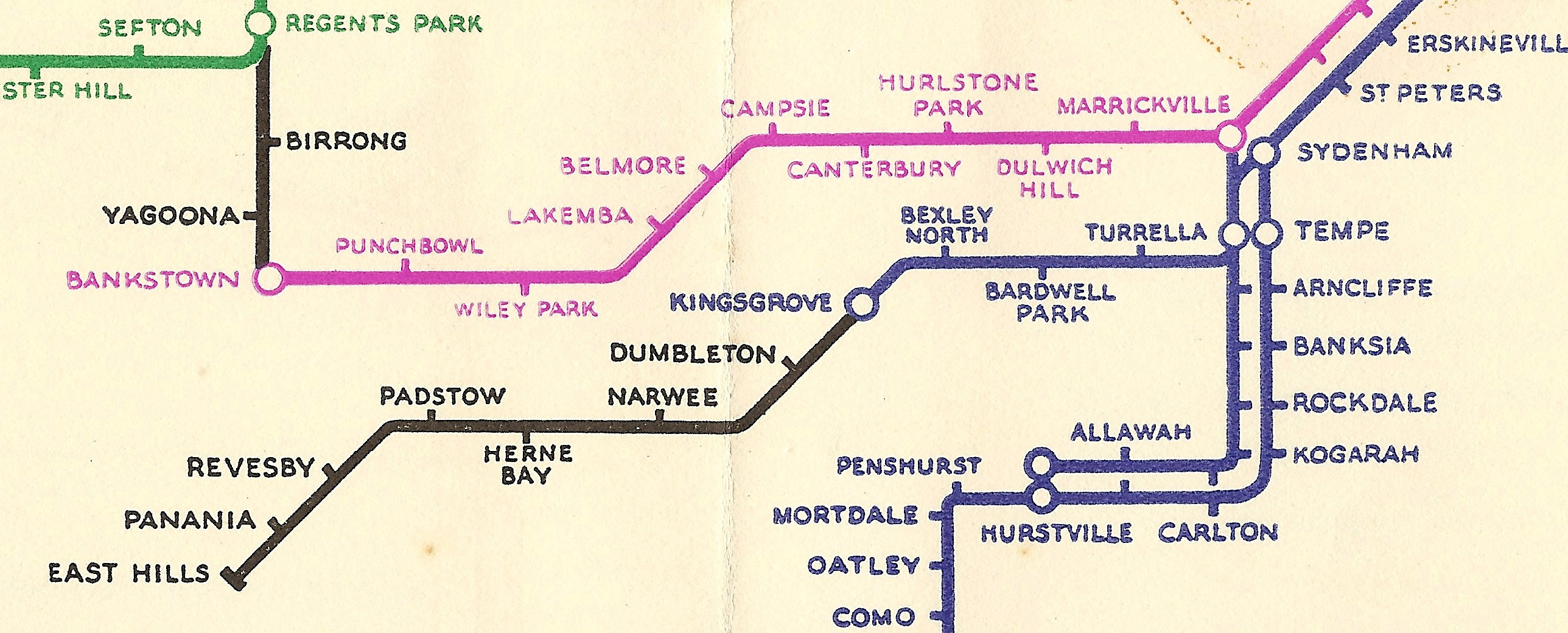 Crop of File:Sydney_railway_map.jpg to focus on the East Hills Line.